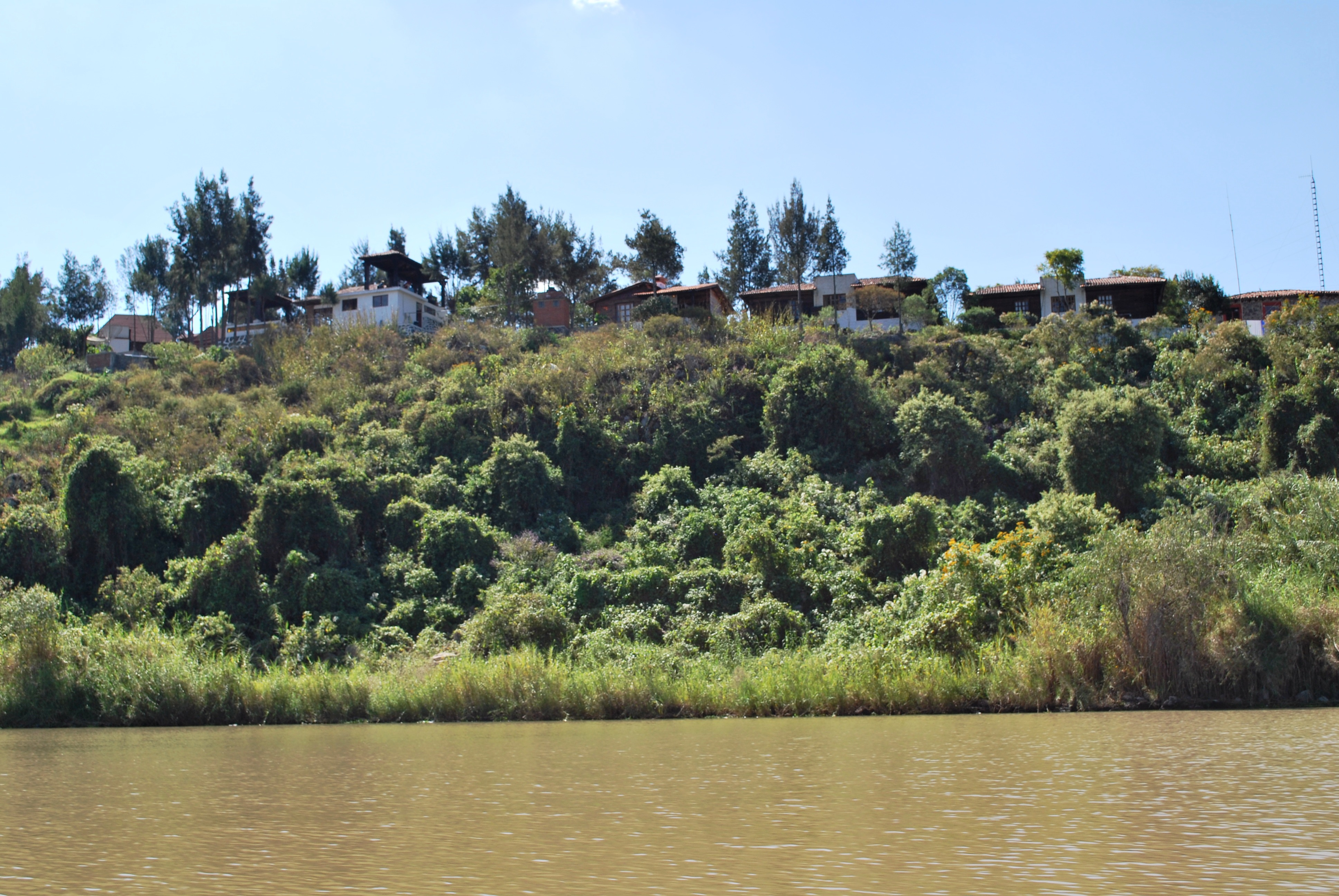 Guesthouses on a ridge of Yunuén Island in the middle of Lake Patzcuaro